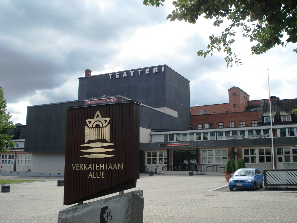 Hämeenlinna theatre in August 2012